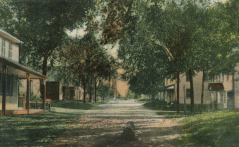 Main Street looking East, Fremont, NH; from a 1909 postcard.